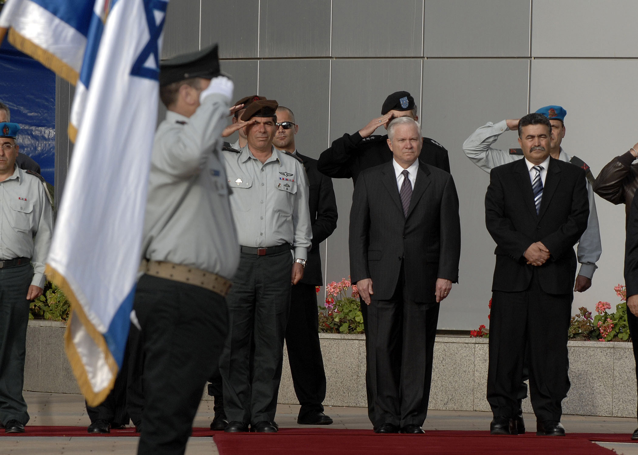 Secretary of Defense Robert M. Gates attends an honor guard ceremony at the Israeli Defense Ministry in Tel Aviv, Israel.